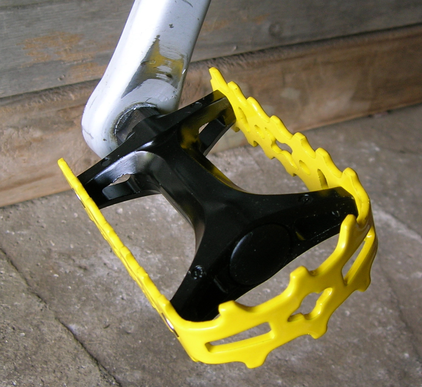 A new Tioga brand bicycle pedal (of the model called 'Beartrap')